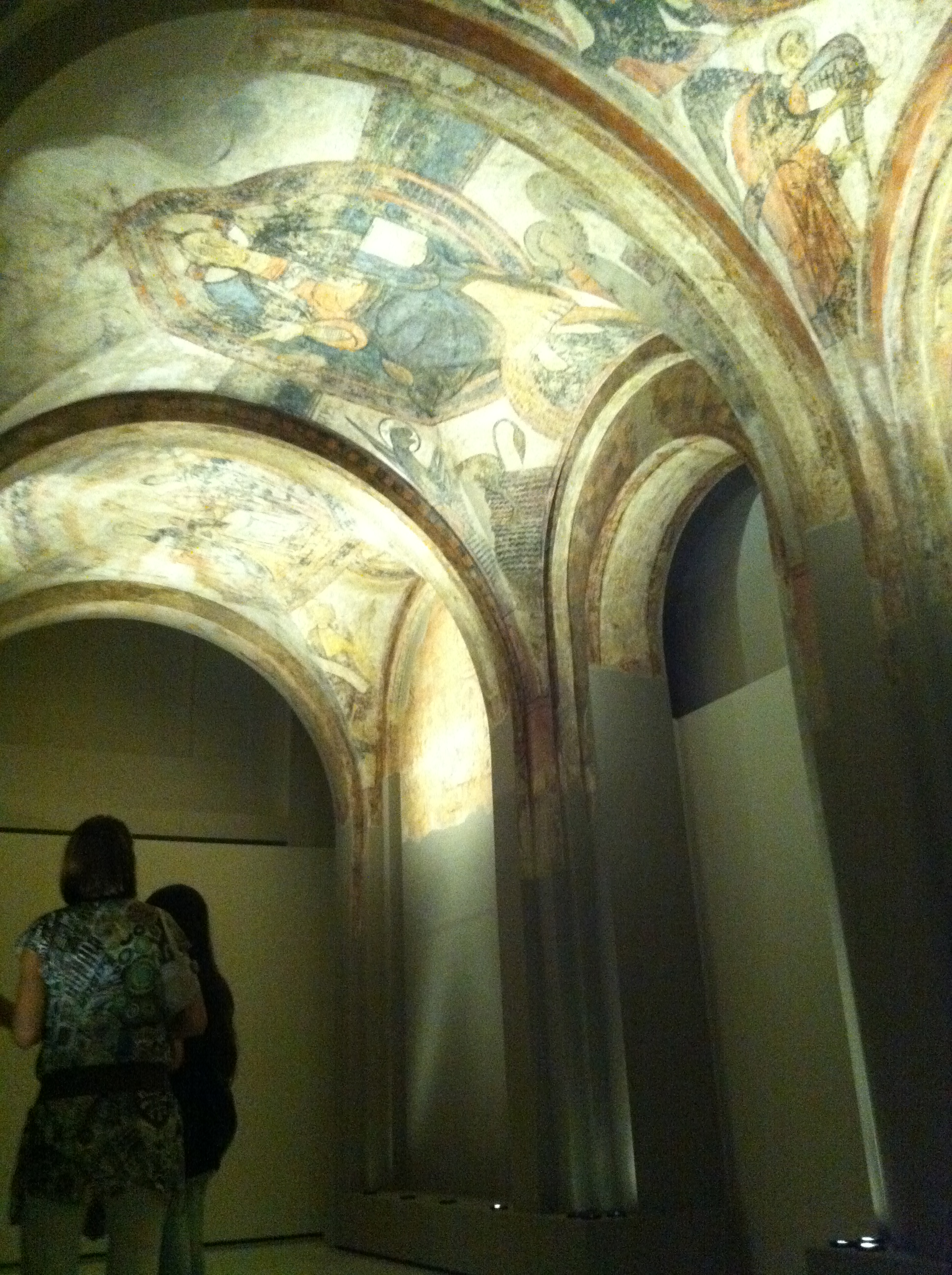 Reopening of the Romanesque collection of MNAC, Museu Nacional d'Art de Catalunya, in Barcelona